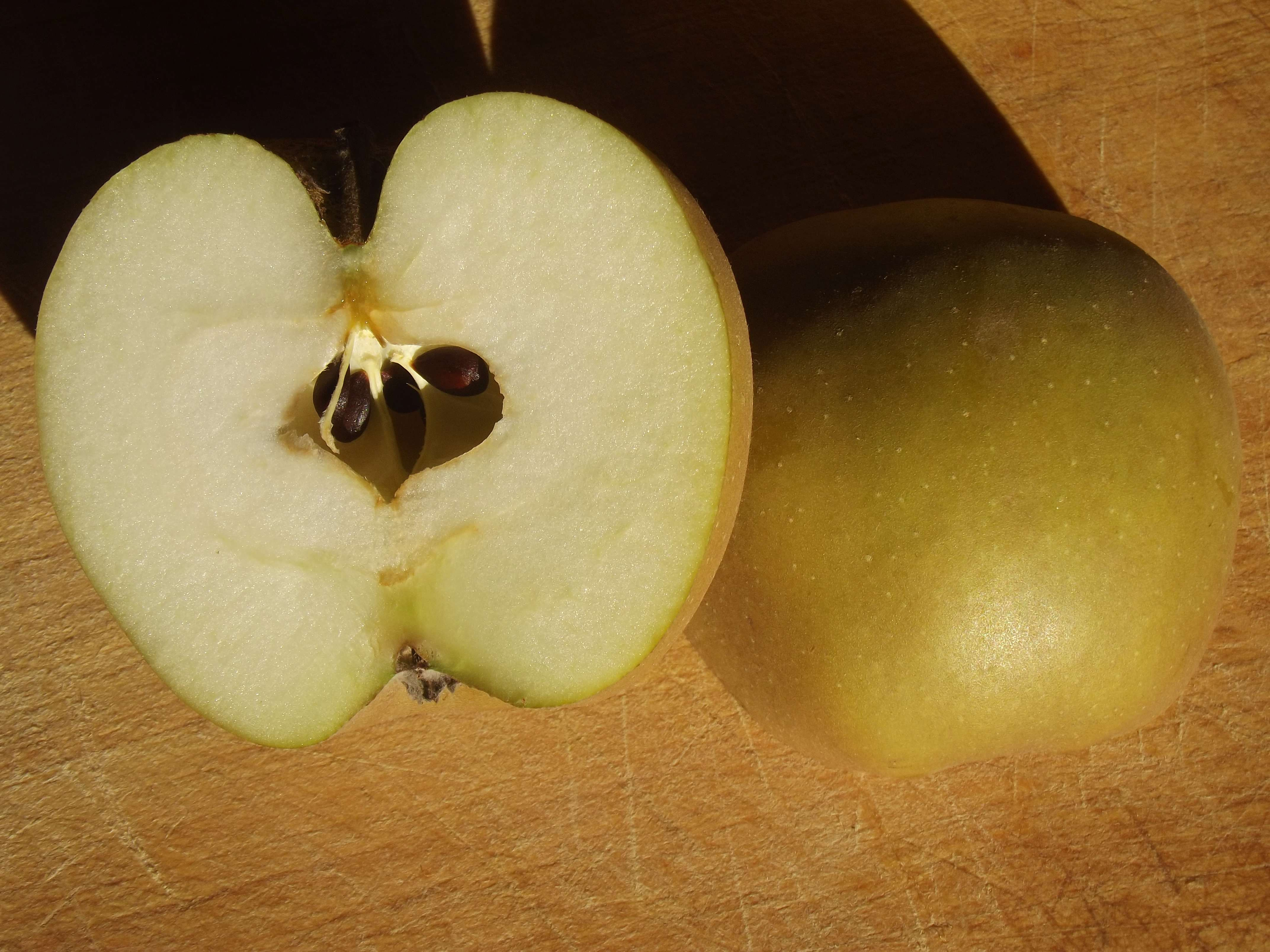 Renetta Grigia di Torriana (Prodotto Agroalimentare Tradizionale del Piemonte - a kind of apple traditionally growthin Piedmont)